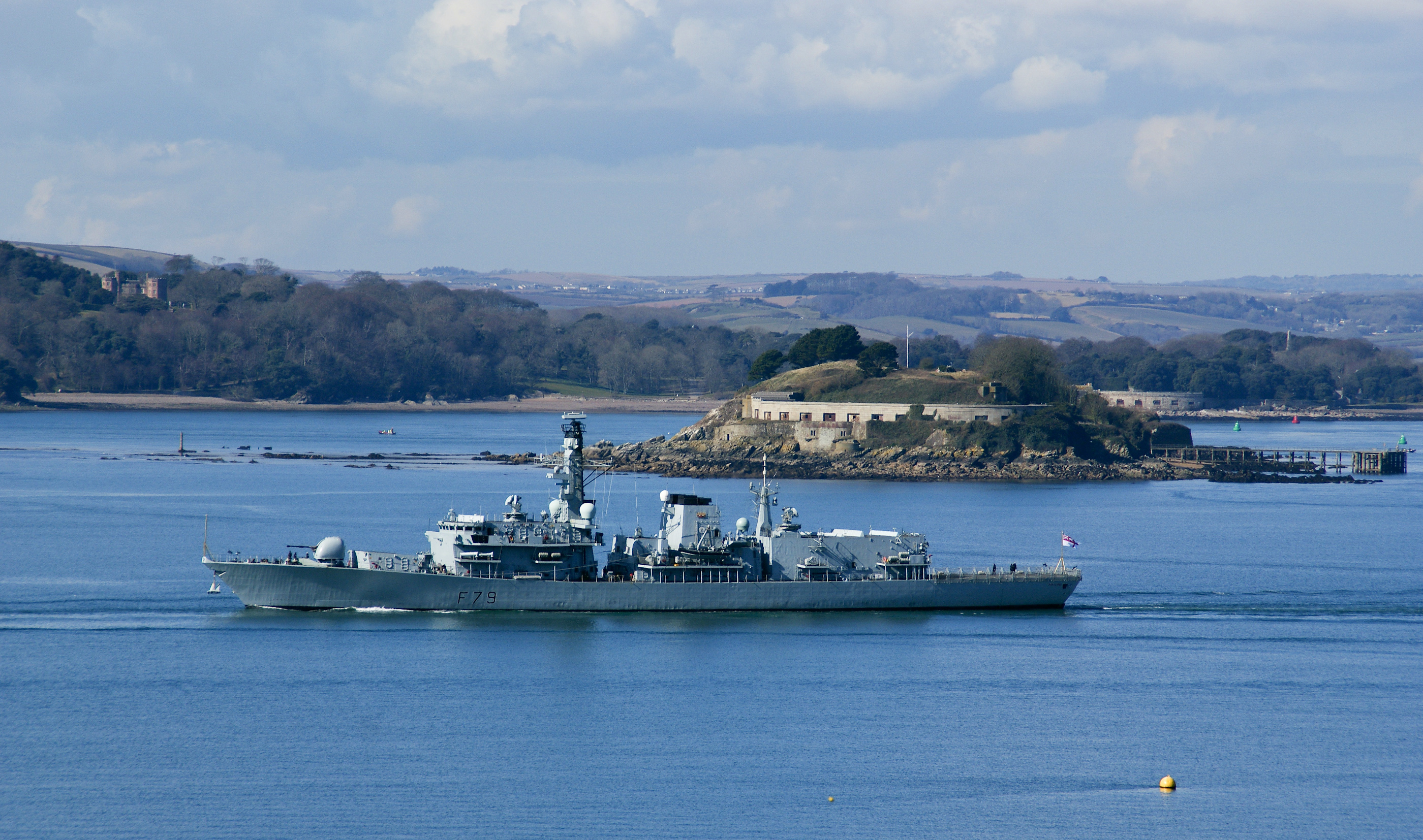 HMS Portland (Type 23 frigate F79) passing Drake's Island in Plymouth Sound, Devon, UK heading out into the English Channel.